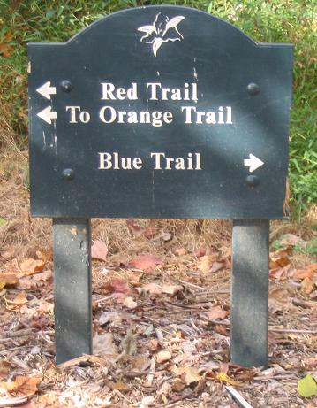 Hiking trail sign, from a public park in Louisville, Kentucky, USA